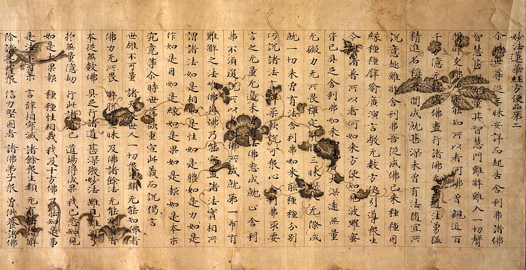 Lotus Sutra, Chapter on "Expedient Means" (法華経方便品, kengukyōzankan).